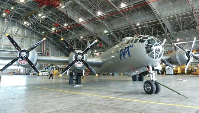 The Commemorative Air Force's B-29, "Fifi", overnighting in the hangar at NASA Langley in May 2011